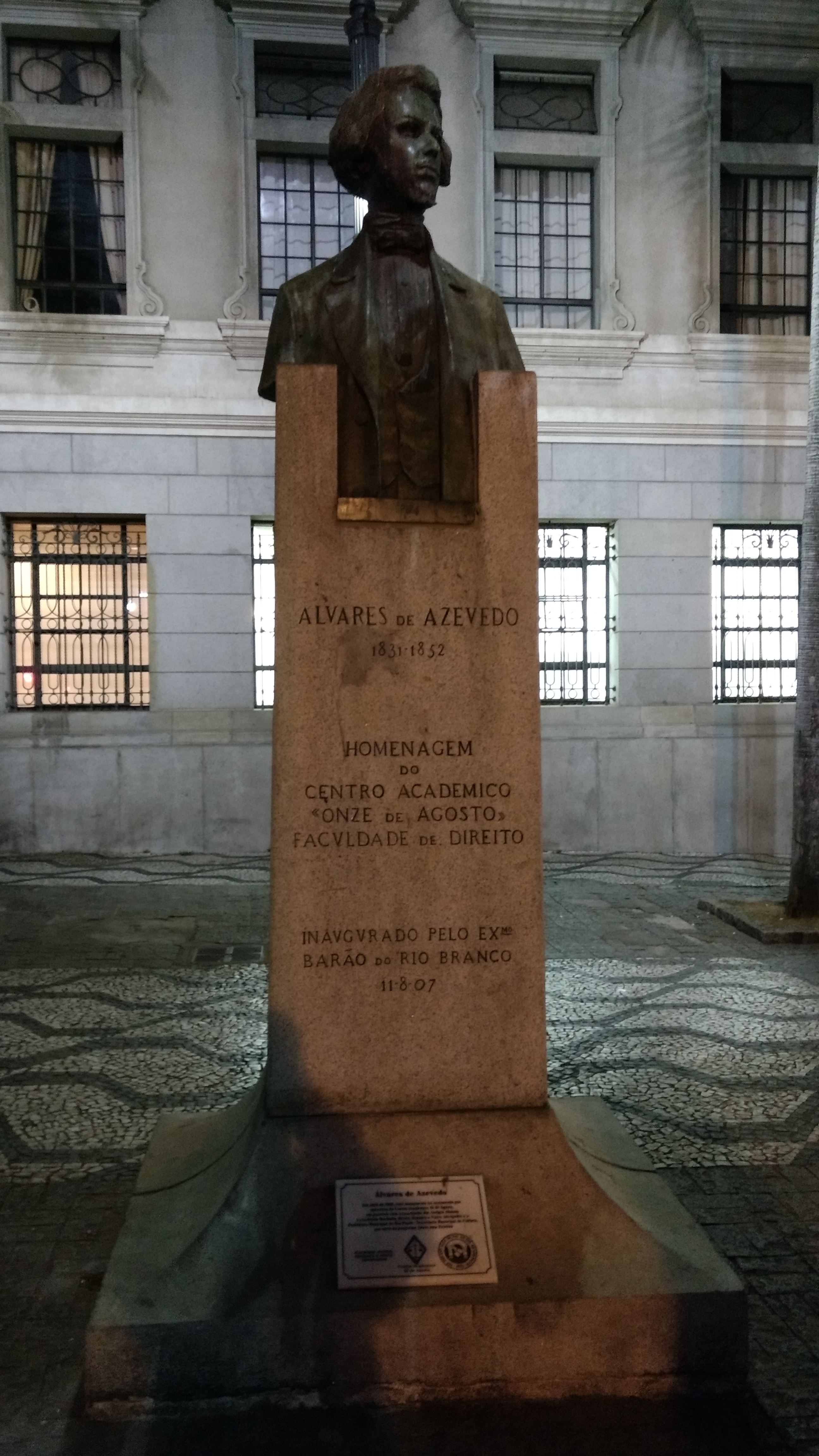 University of São Paulo Law School (in